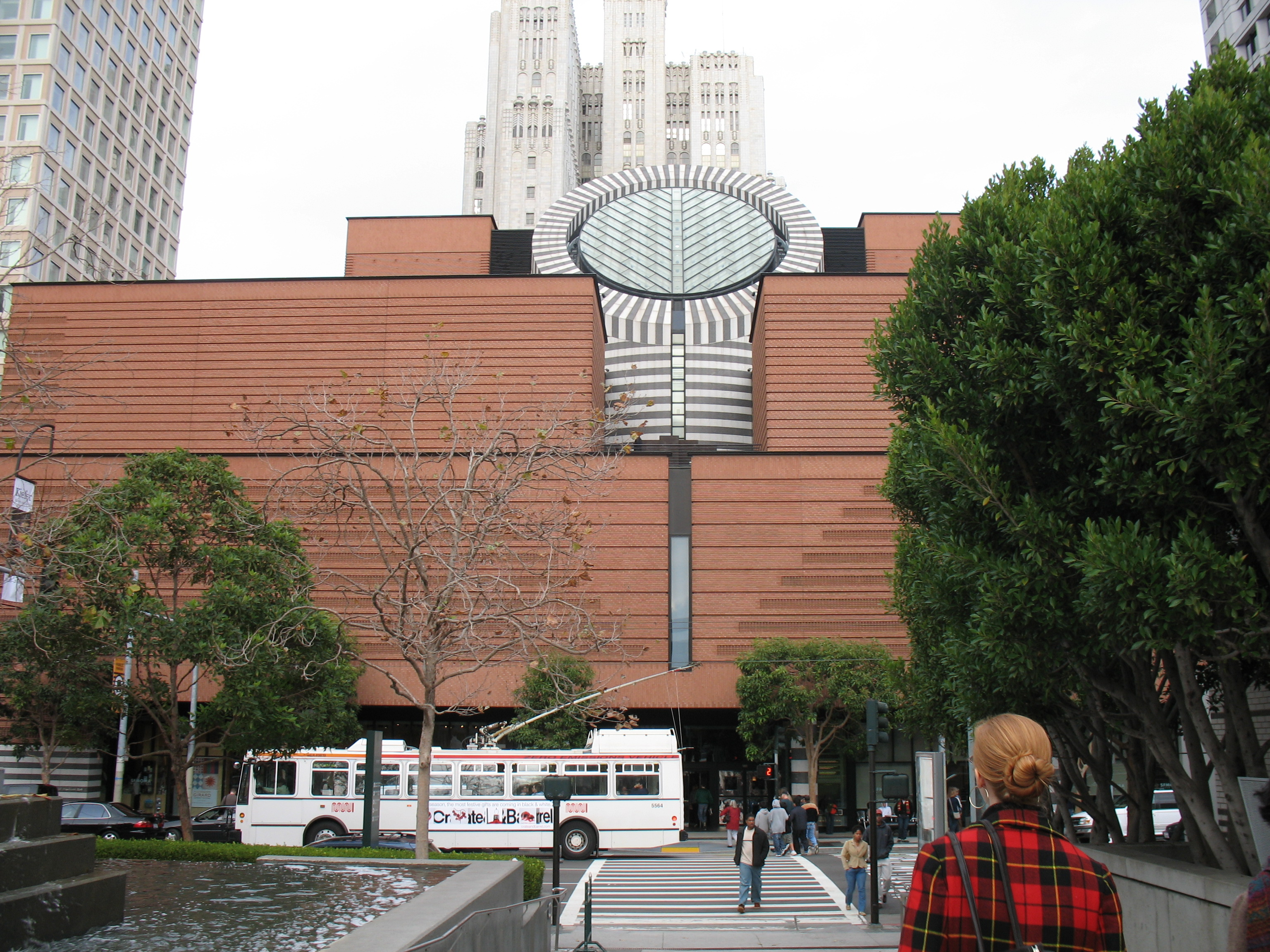 The San Francisco Museum of Modern Art